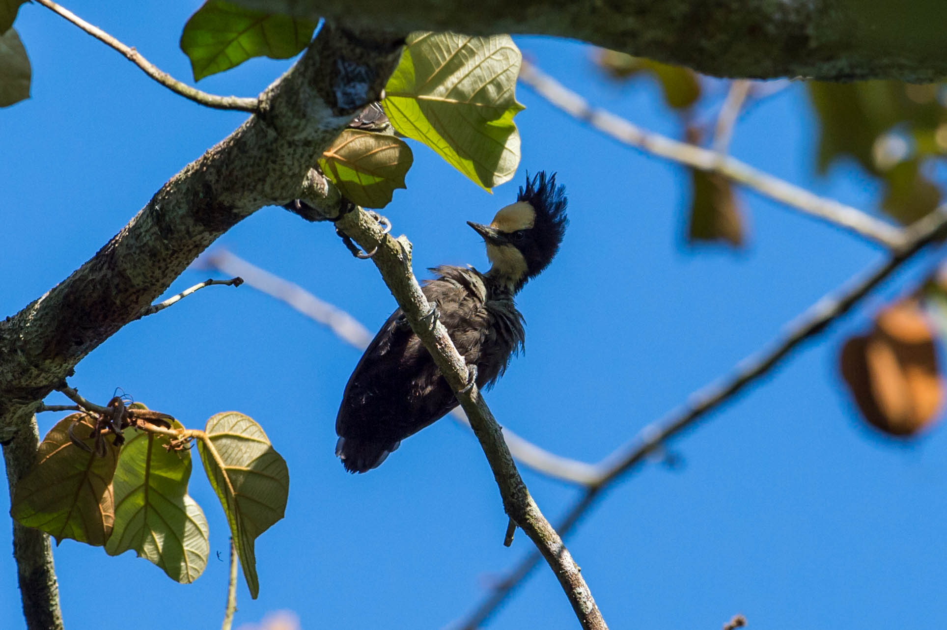 Female of Heart-spotted Woodpecker (Hemicircus canente) at Kaeng Krachan, Phetchaburi, Thailand